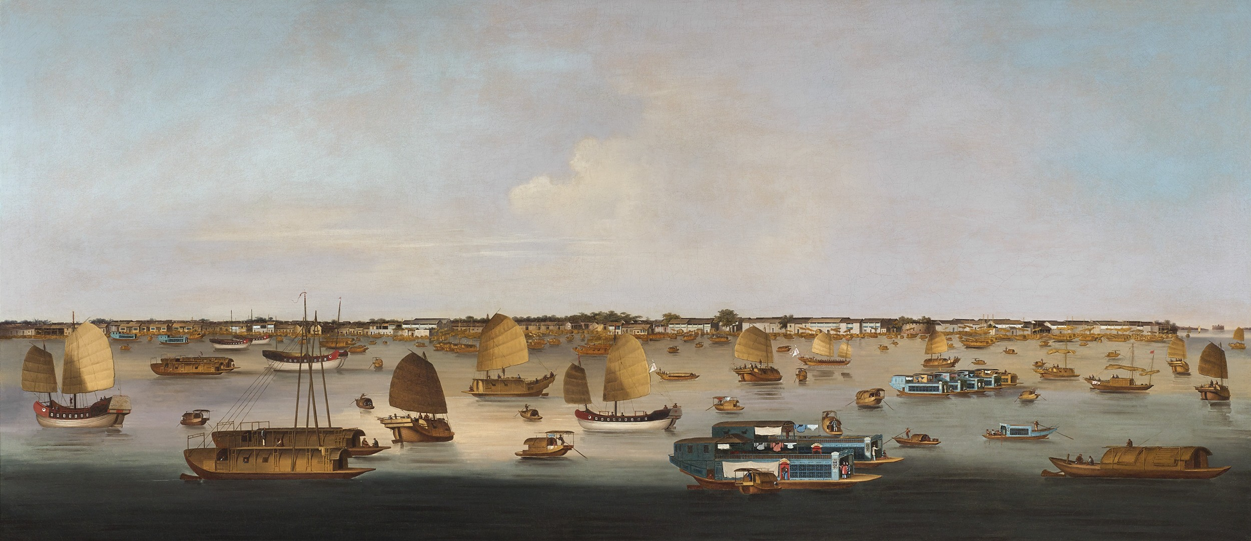 A View of Henan (Honam), Chinese School. Qing Dynatsty.